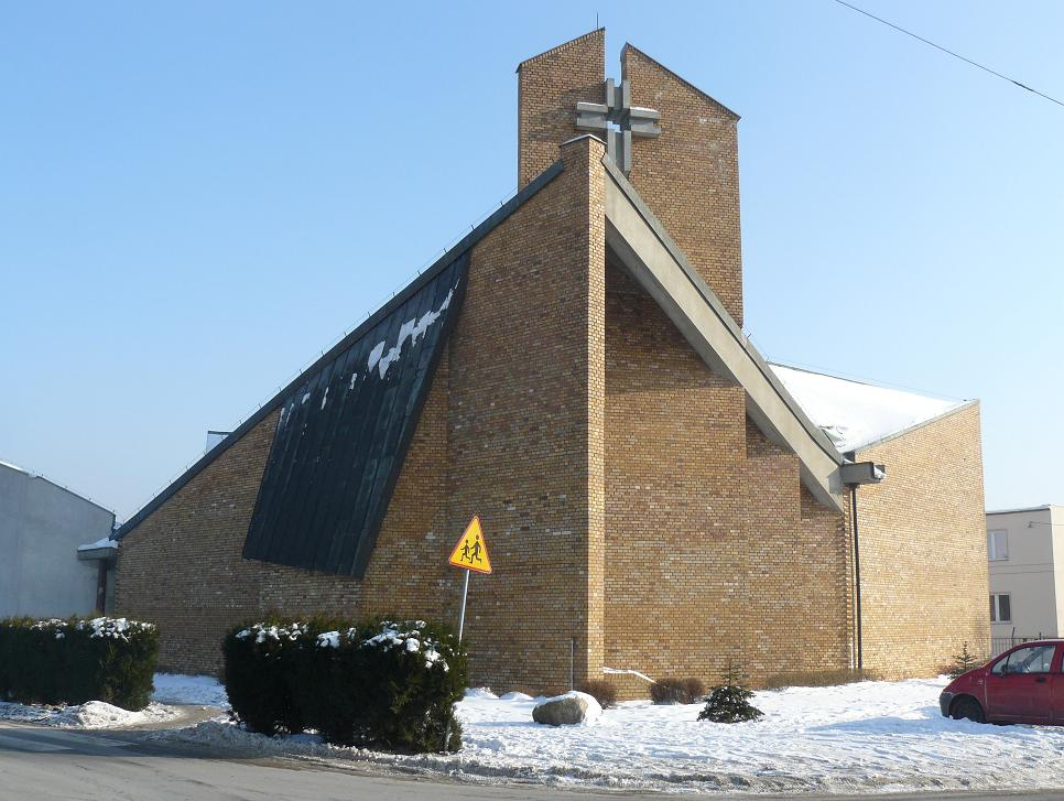 Kwiatowe District in Poznan - Church.